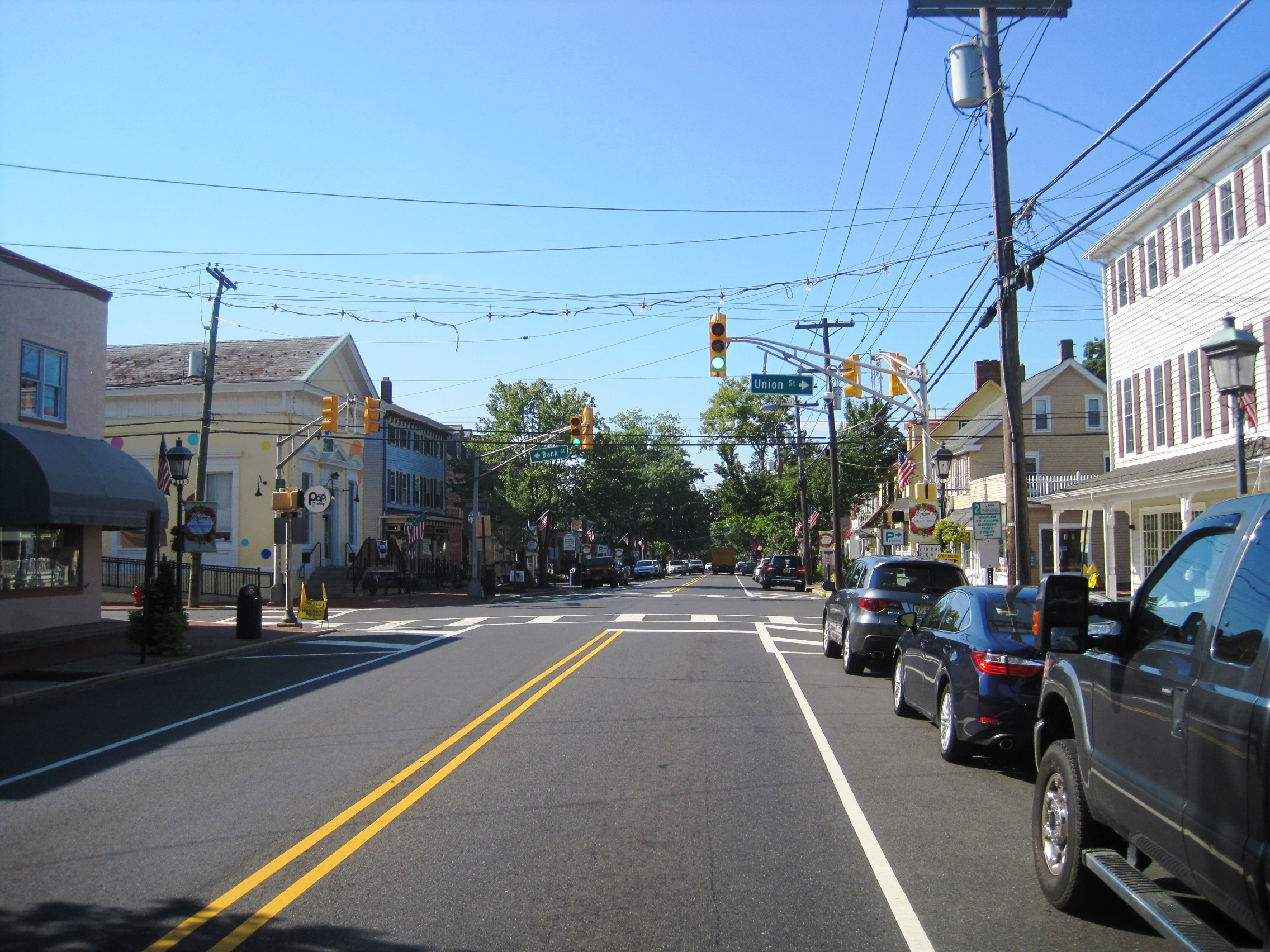 Photo showing downtown Medford, New Jersey. Photo taken along southbound Main Street (County Route 541) approaching Bank Street.